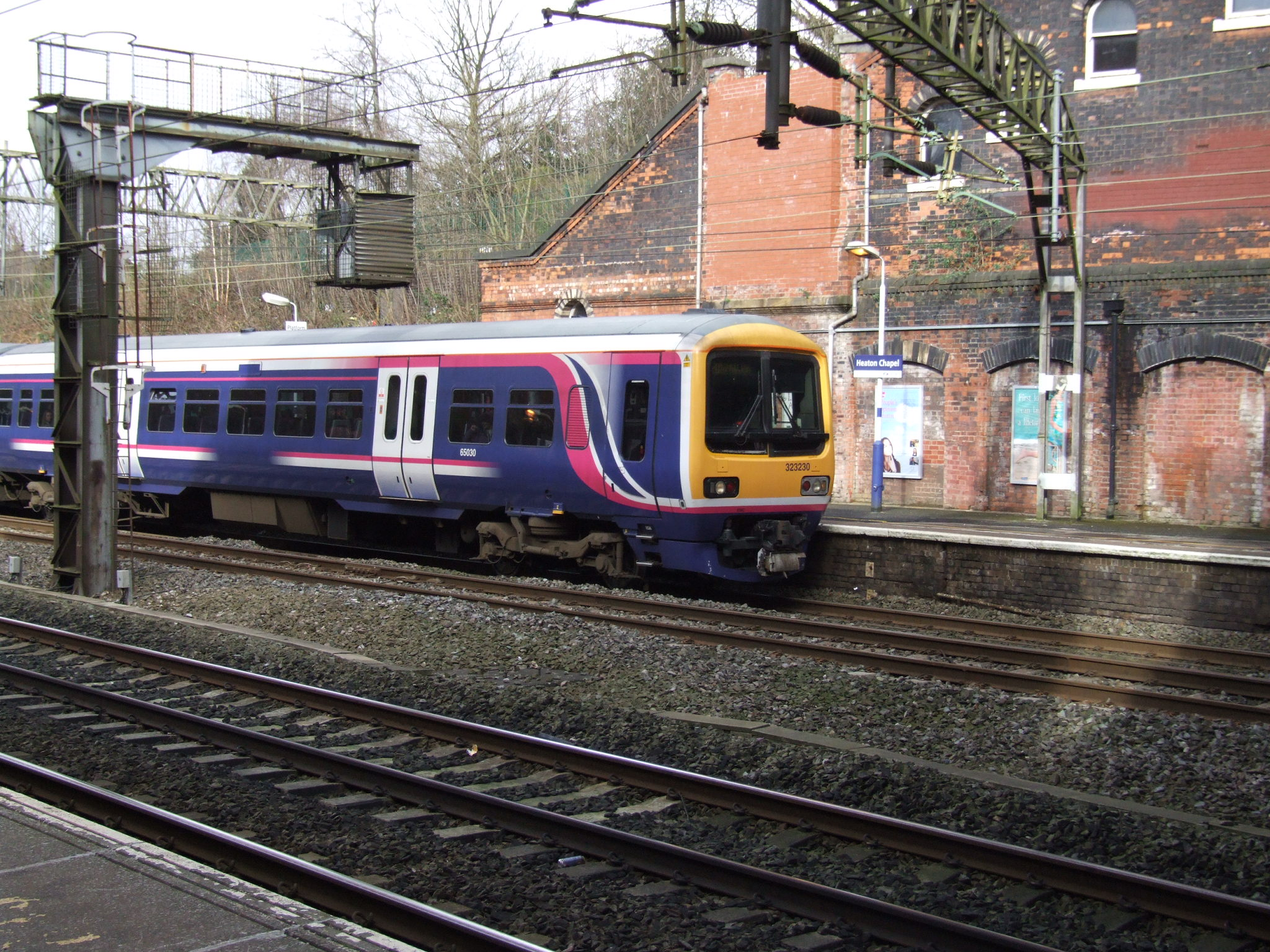 Heaton Chapel is situated in Stockport, in the direction of Manchester. It lies at the junction of the A6 road and the A626. The railway runs parallel to the A6.. . Heaton Chapel railway stationwith a British Rail Class 323 EMU 323230